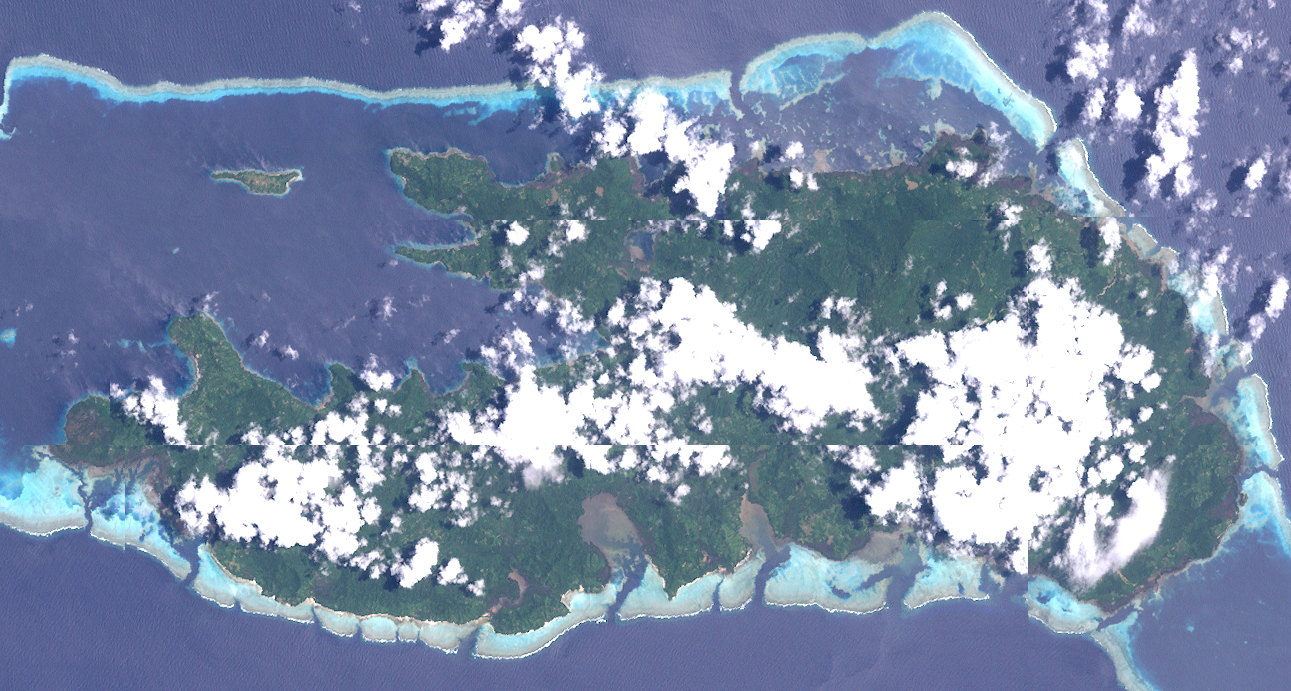 This image (Landsat7) shows Rossel Island and the small Islet Wola, Louisiade Archipelago, Papua New Guinea